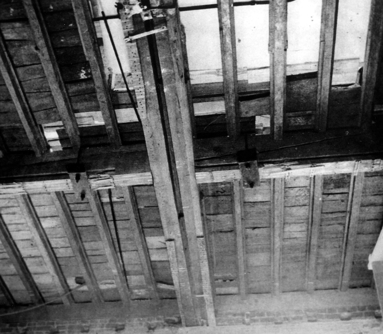 General notes: A photograph of a split beam under the room Margaret Truman occupied as a sitting room while in the White House. From the "Report of the Commission on the Renovation of the Executive Mansion.